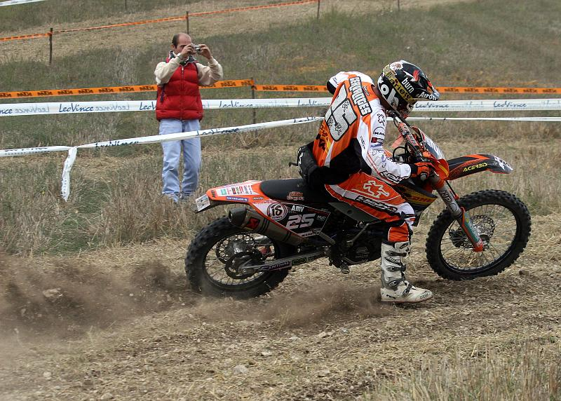 Iván Cervantes riding his KTM E1 bike at the 2008 World Enduro Championship Grand Prix of Italy in Piediluco.